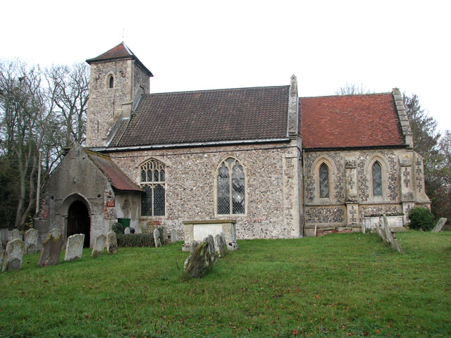 View of the exterior of St Andrew's Church, Fersfield, Norfolk, England, of which Rev. Francis Blomefield was the rector. Blomefield was born and died in Fersfield.